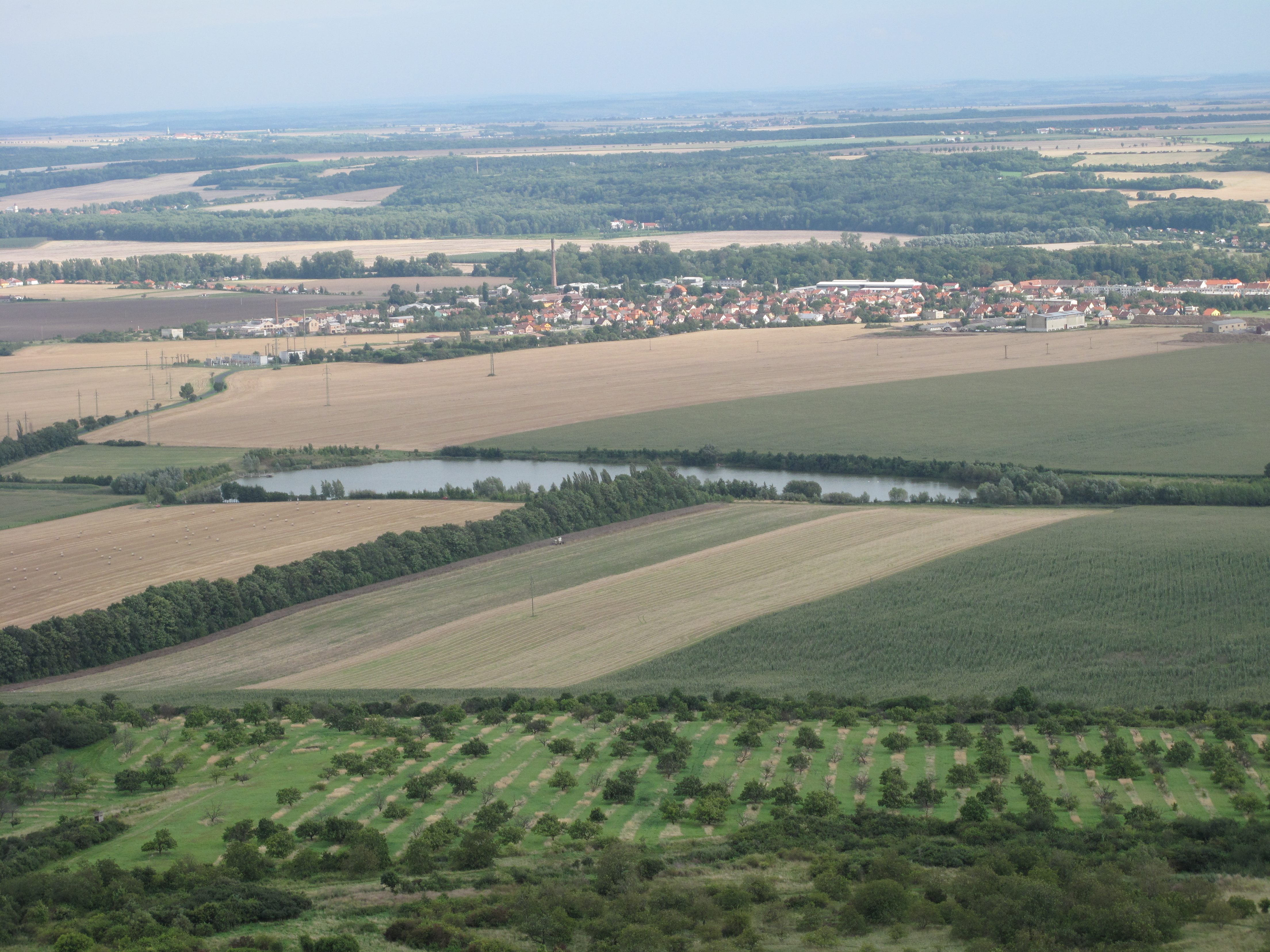 Pond on Rosovka Stream and Libochovice town as seen from Hazmburk Castle (ruin), Litoměřice District, Czech Republic.